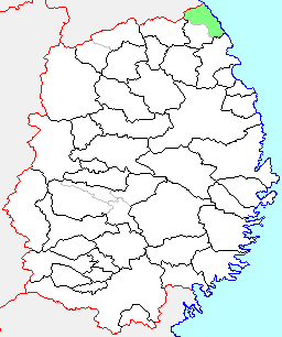 Map of former Taneichi Town, Iwate, Japan